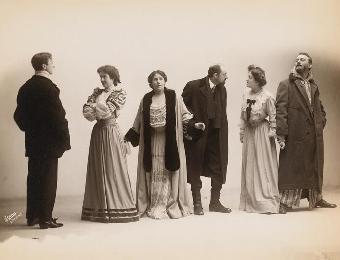 Publicity still (cropped) for the play Mrs. Leffingwell's Boots, Savoy Theatre, Broadway, with Margaret Illington (center), Louis Payne (in boots) & Guy Standing (far right)